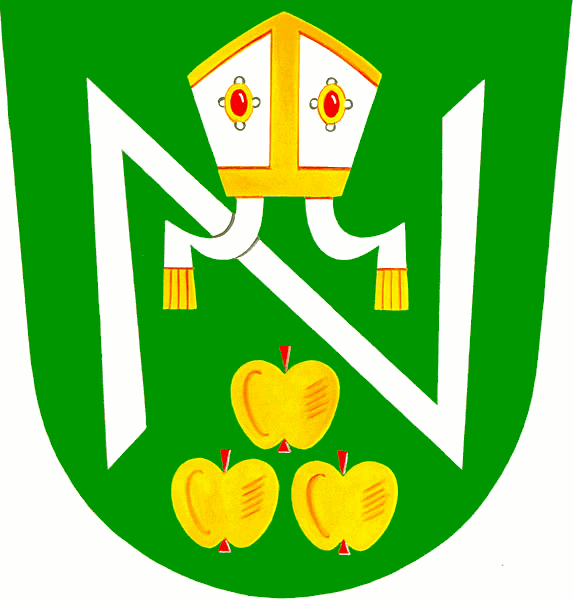 Municipal coat of arms of Nevojice village, Vyškov District, Czech Republic.